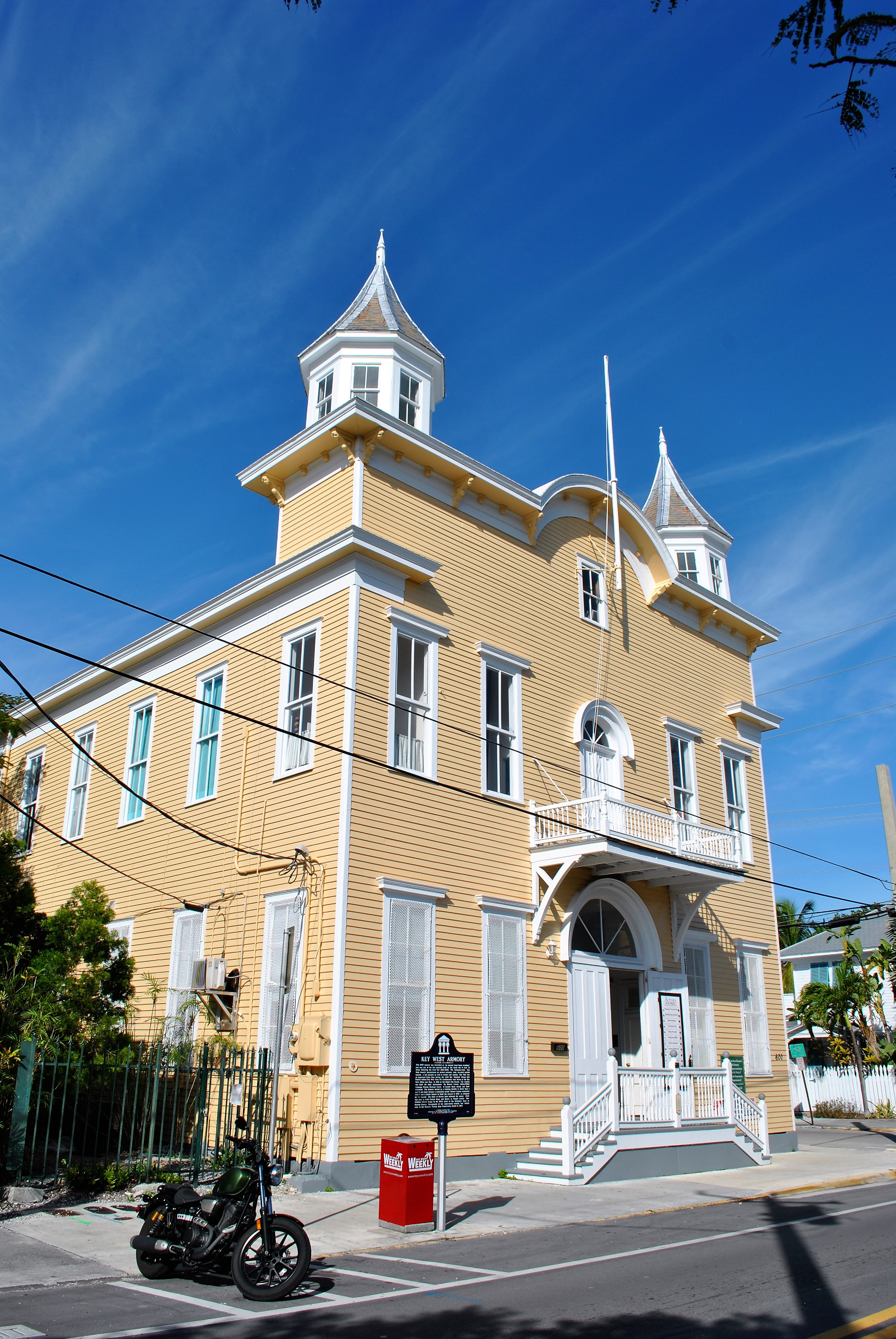 National Register of Historic Places: The Armory (600 White St.), 71000243, 1971